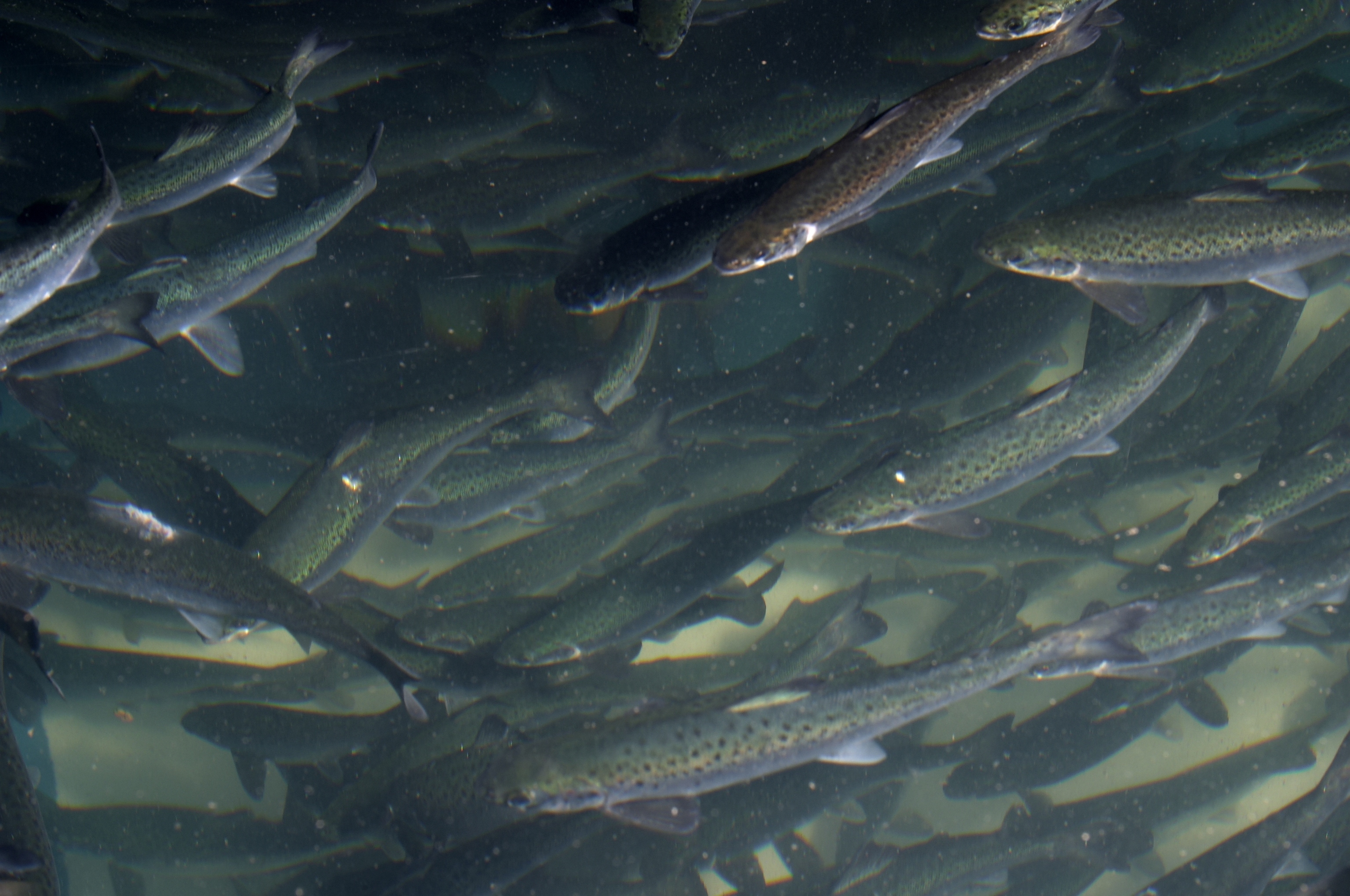 Atlantic salmon in tanks